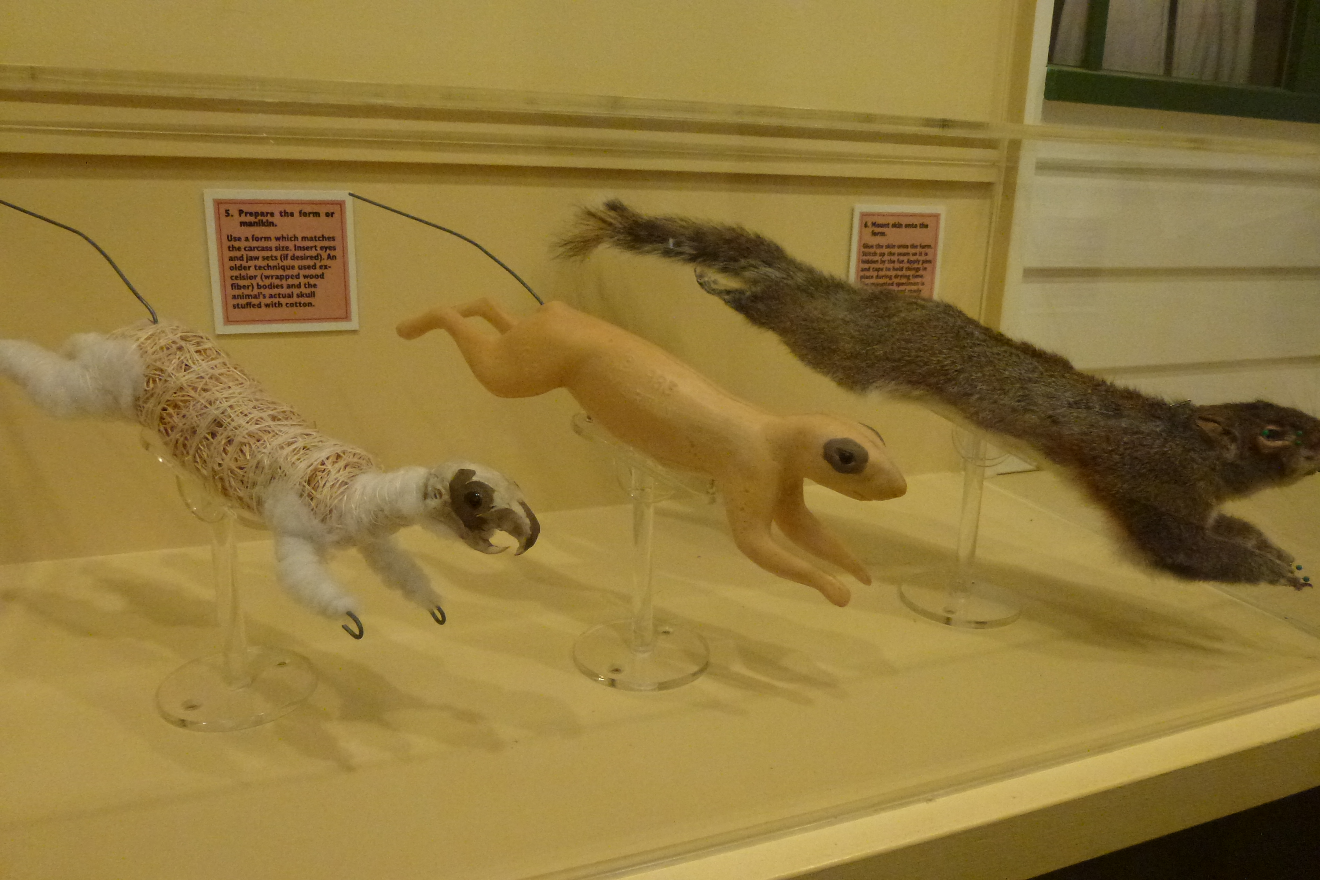 White Memorial Conservation Center, a natural history museum and nature preserve in Litchfield, CT. It is supported by the White Memorial Foundation.